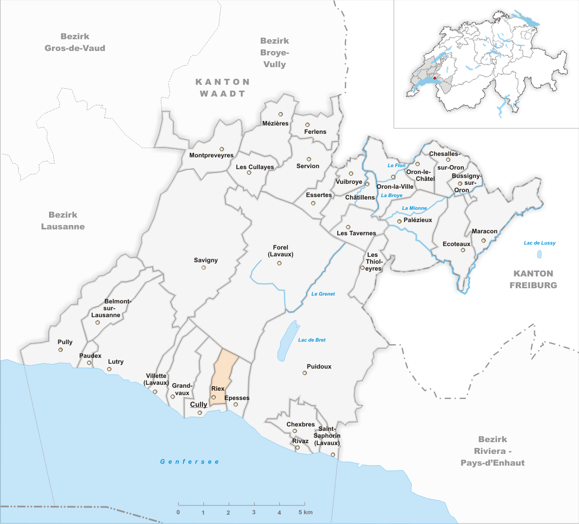 Municipality Riex